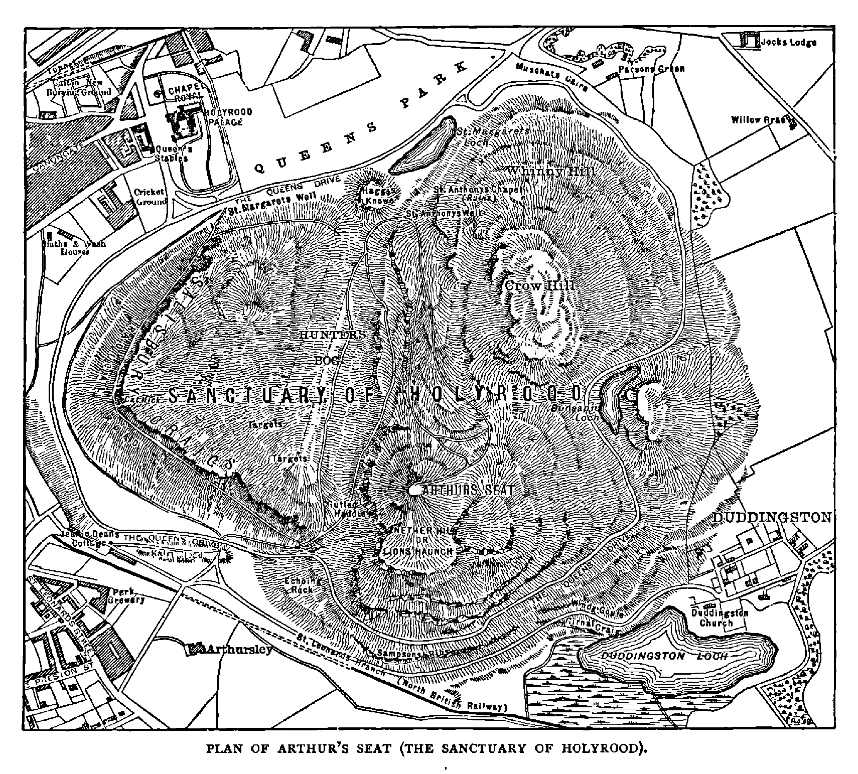 Plan of Holyrood Park